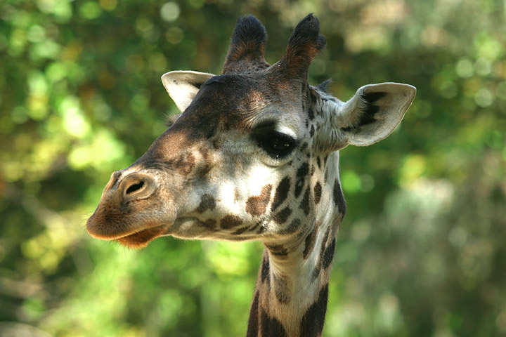 Giraffe